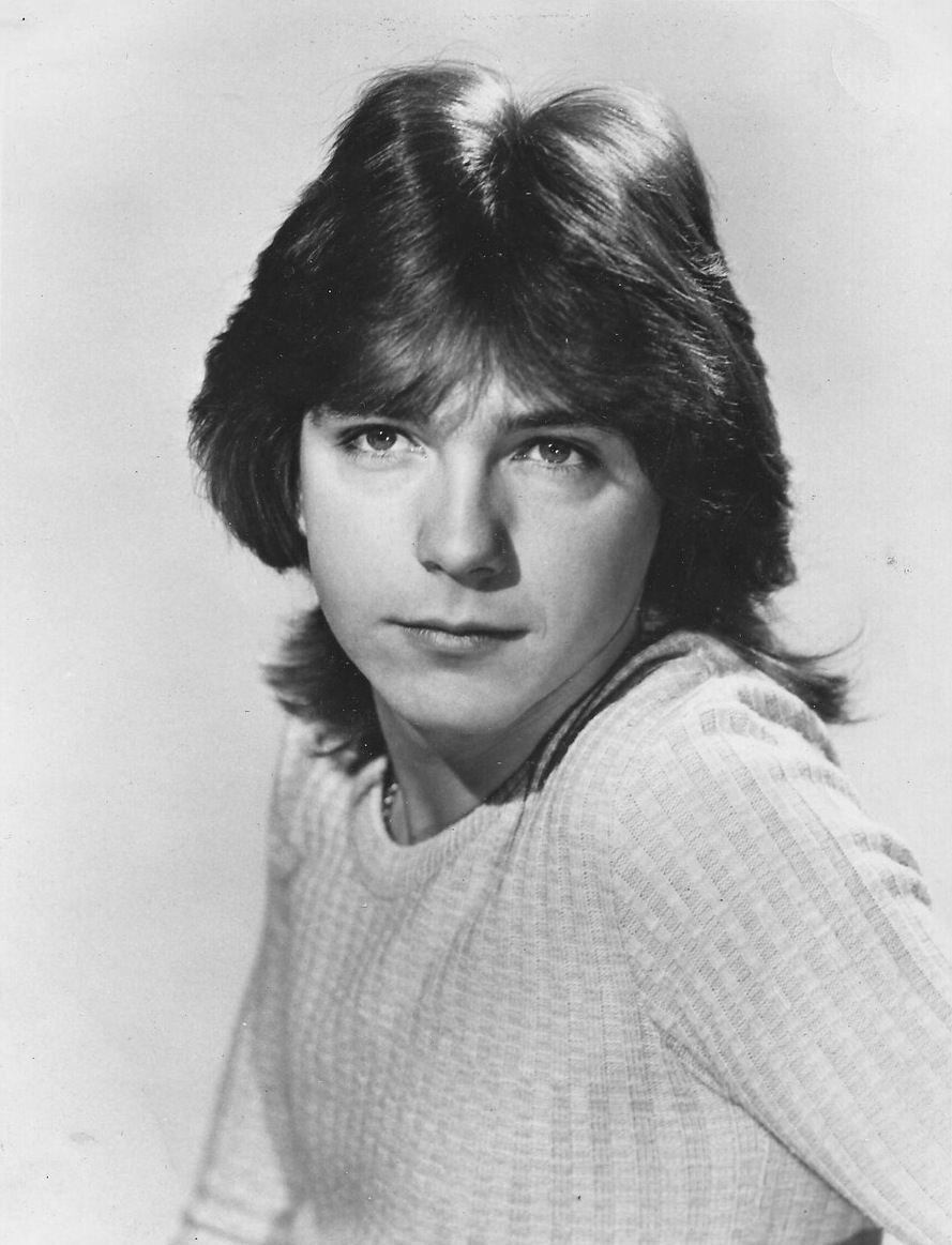 Publicity photo of American actor, David Cassidy promoting his role on the ABC comedy series The Partridge Family.